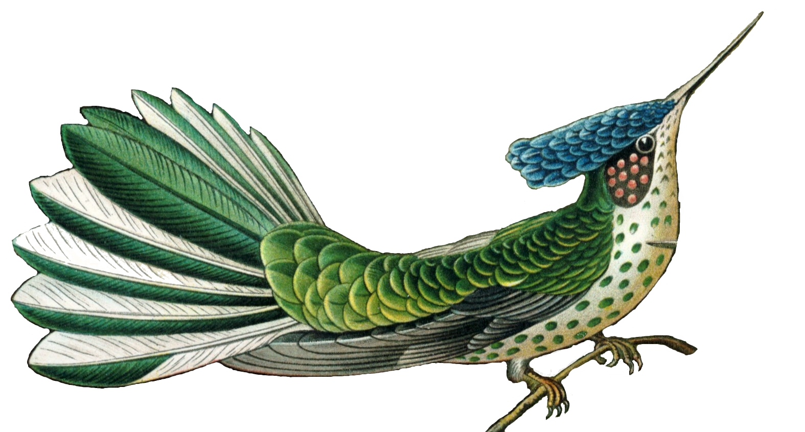 Female Juan Fernández Firecrown (drawn from millinery specimen, body position is not natural)